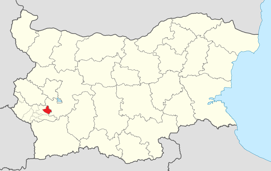 Location map of Sapareva banya Municipality within Bulgaria and Kyustendil province